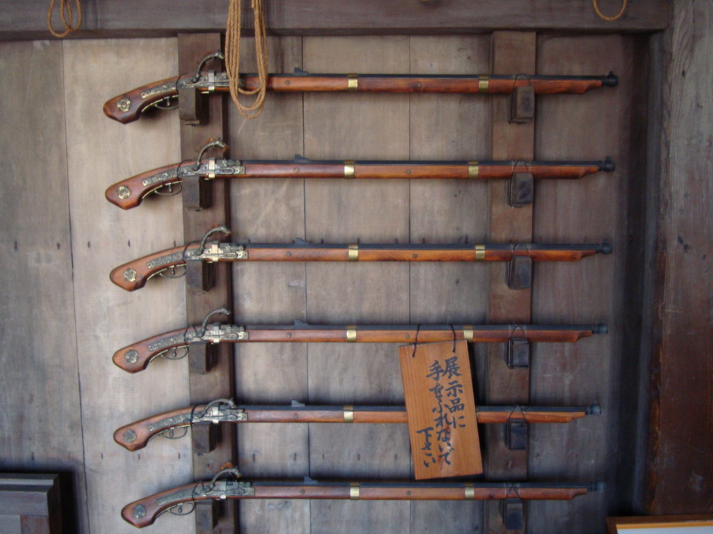 Antique Japanese (samurai) tanegashima (matchlocks), Himeji castle.